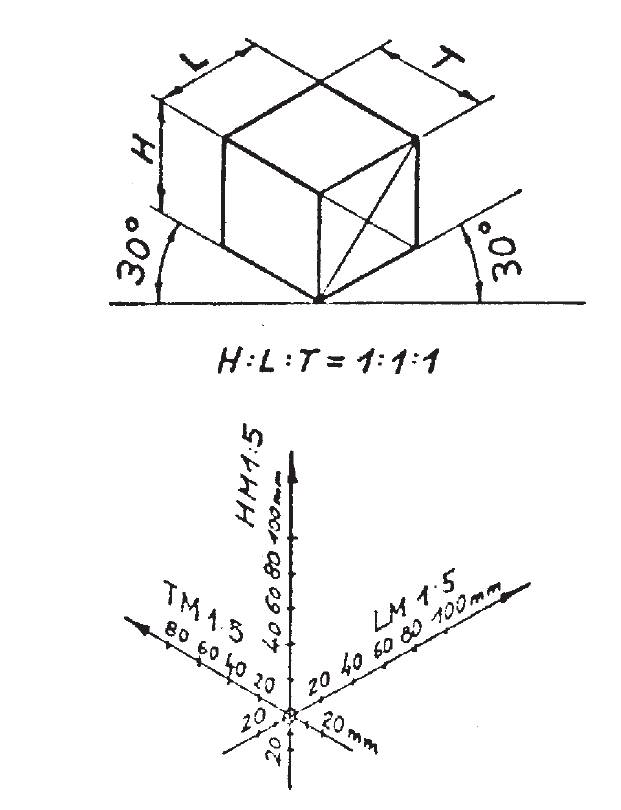 Isometrische Axonometrie